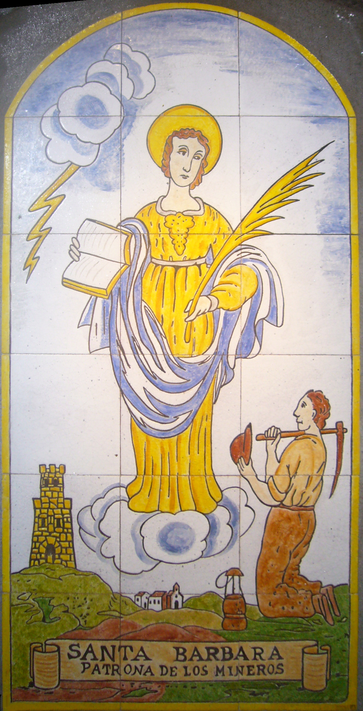 Cercs mining museum. Santa Barbara image at the Galeria de Sant Romà.